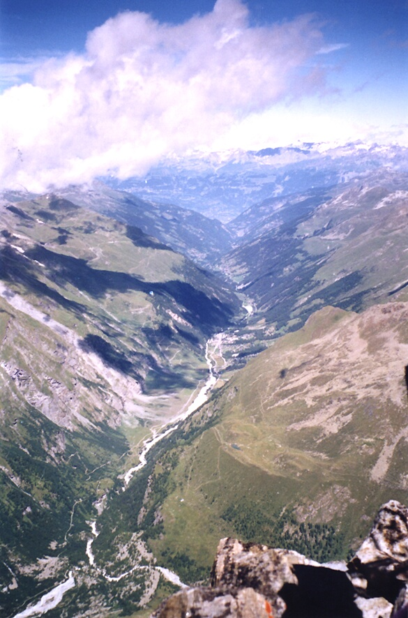 Panoramic view of the Val d'Anniviers, Valais, Switzerland, seen from top of the Besso (south of the Valley)